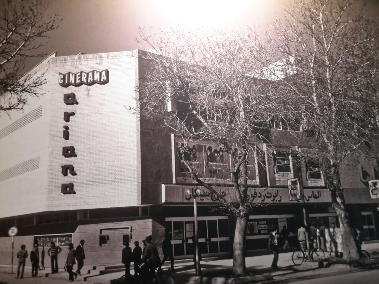 cinema in shiraz